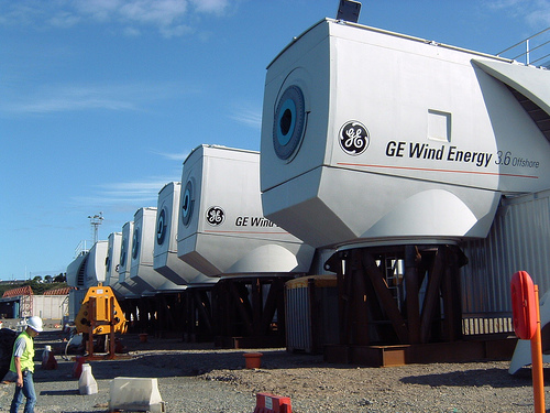 GE Wind turbines on assembly dock at Rosslare in 2003 for Arklow Bank offshore wind park, Ireland, Wicklow Coast.